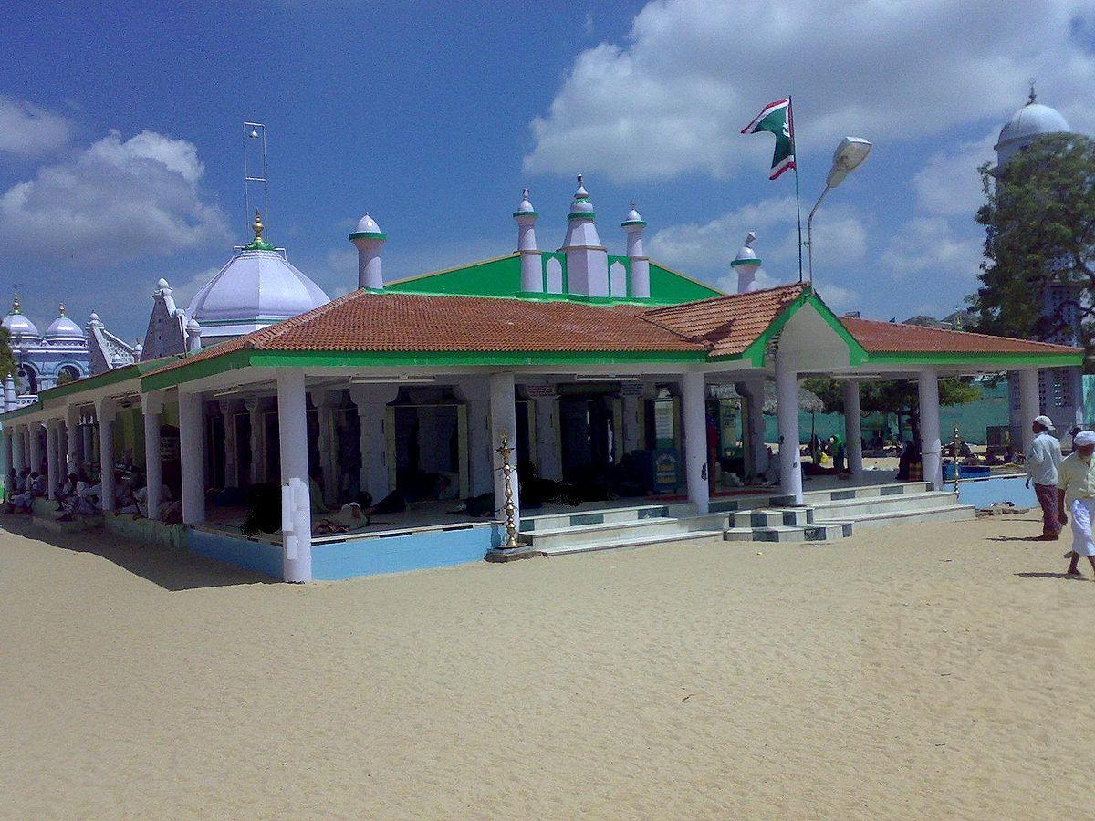 Full view of dargah